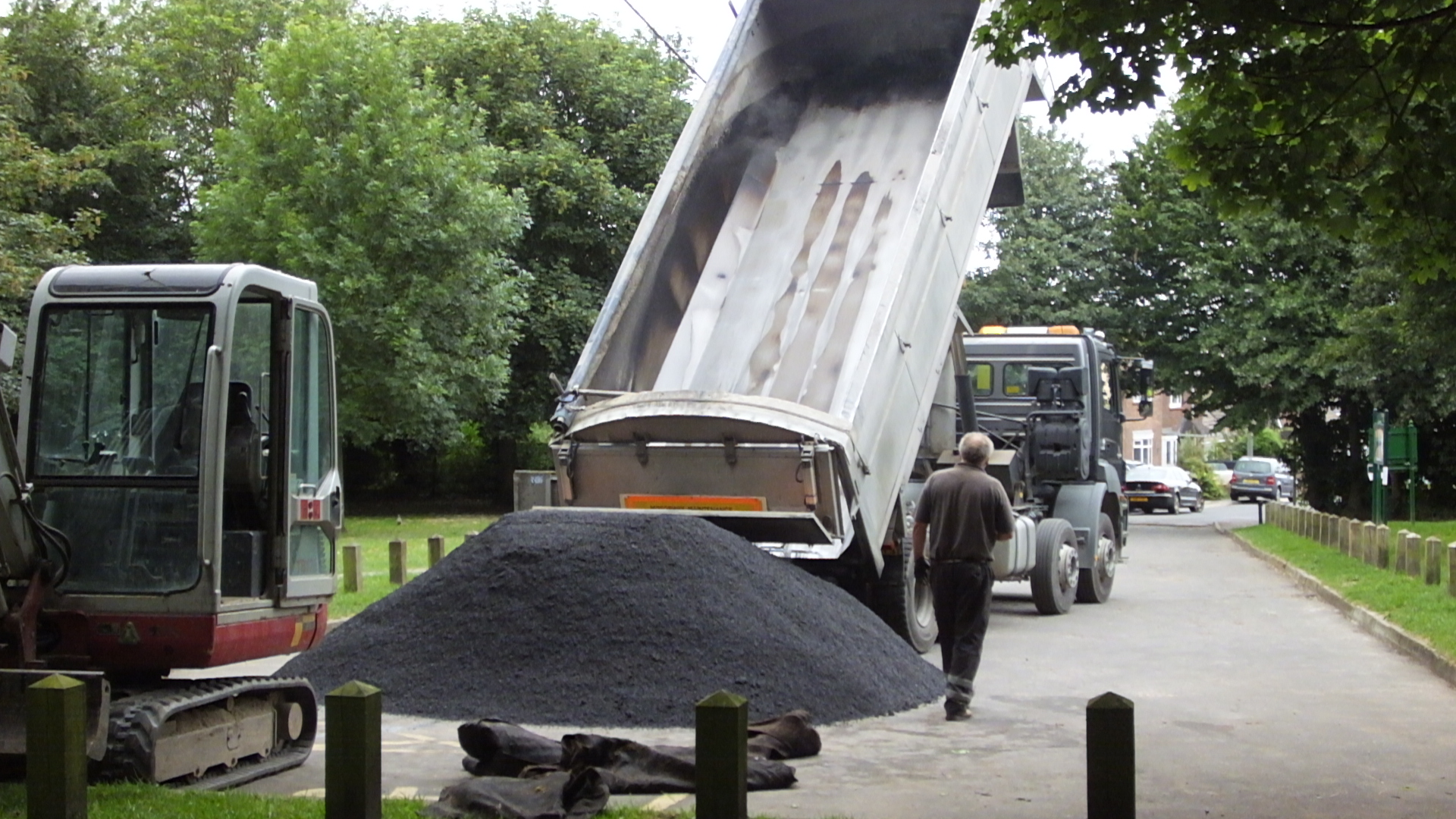 The Broomhill Community human sundial is an analemmatic sundial in Strood, Kent. The ground was marked out in red. The dial was designed by Arc Creative, Folkestone, and embedded in tarmac by Ashford Tarmacadam. A tarmac delivery.